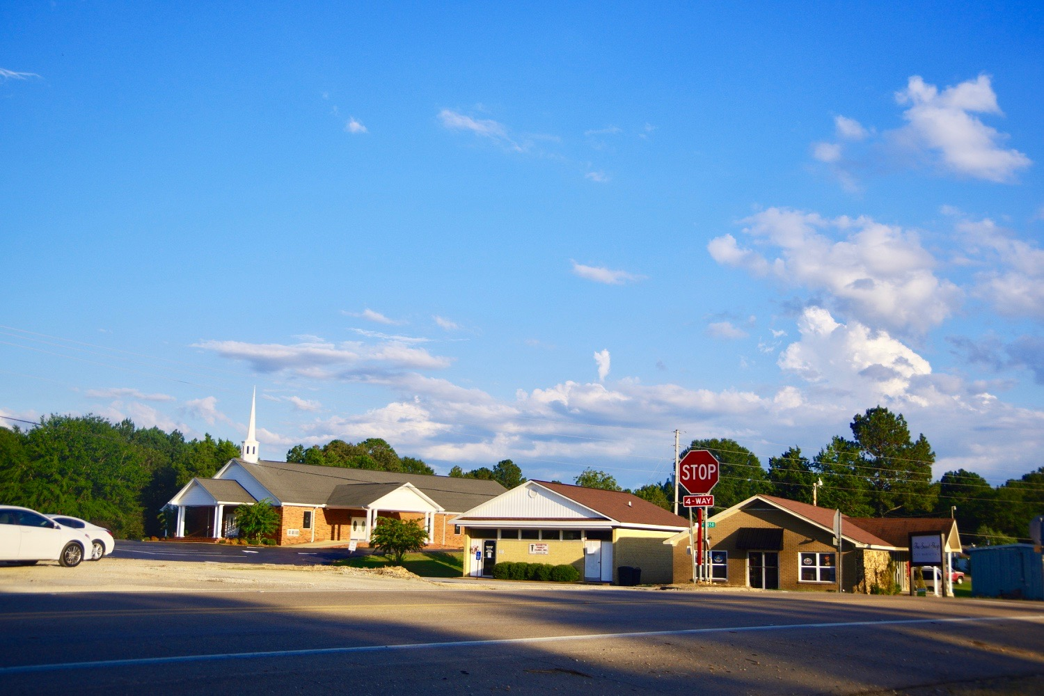 Buildings along County Road 4050 in Marietta, Mississippi, United States.